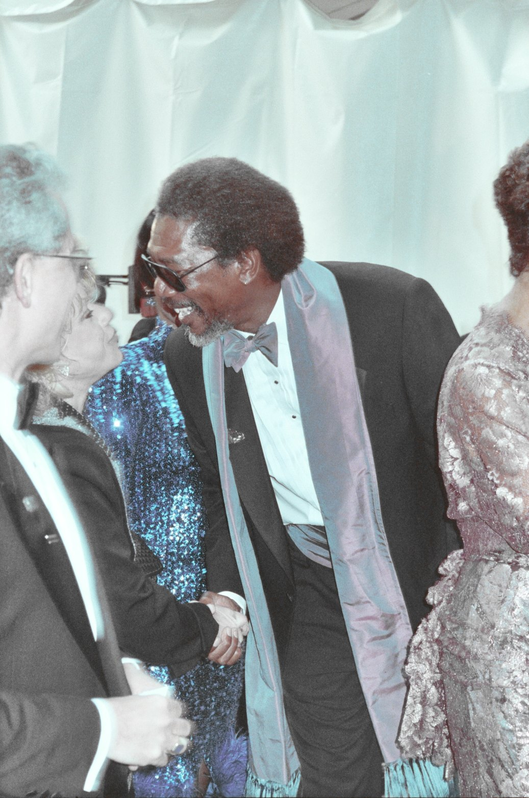 1990 Academy Awards NOTE: Permission granted to copy, publish, broadcast or post any of my photos, but please credit "photo by Alan Light" if you can. Thanks. Scanned from the original 35MM film negative.